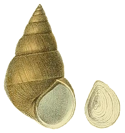 Drawing of an apertural view of the shell of Sinotaia aeruginosa and its operculum.